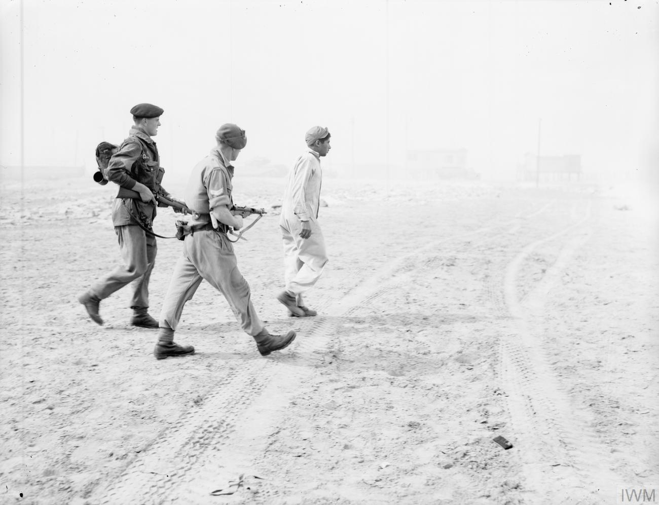 Troops of 3rd Battalion Parachute Regiment escort a captured Egyptian soldier on the beach at Port Said